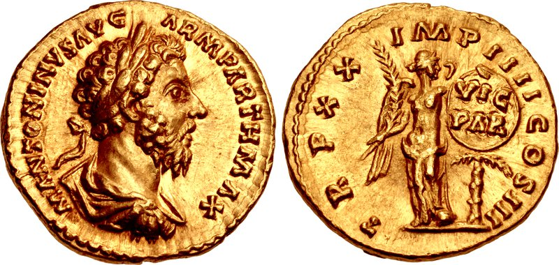 Marcus Aurelius. AD 161-180. AV Aureus (19mm, 7.20 g, 6h). Rome mint. Struck AD 166. M ΛNTONINVS ΛVG ΛRM PΛRTH MΛX, laureate, draped, and cuirassed bust right / TR P XX IMP IIII COS III, Victory standing facing, head right, holding palm frond in right hand, resting left on round shield, inscribed VIC/PAR in two lines, set on palm tree. RIC III 160; MIR 18, 141-2/37; Calicó 1992; BMCRE 405 (same obv. die); Biaggi 897. EF, lightly toned. Ex Leu 2 (25 April 1972), lot 407.